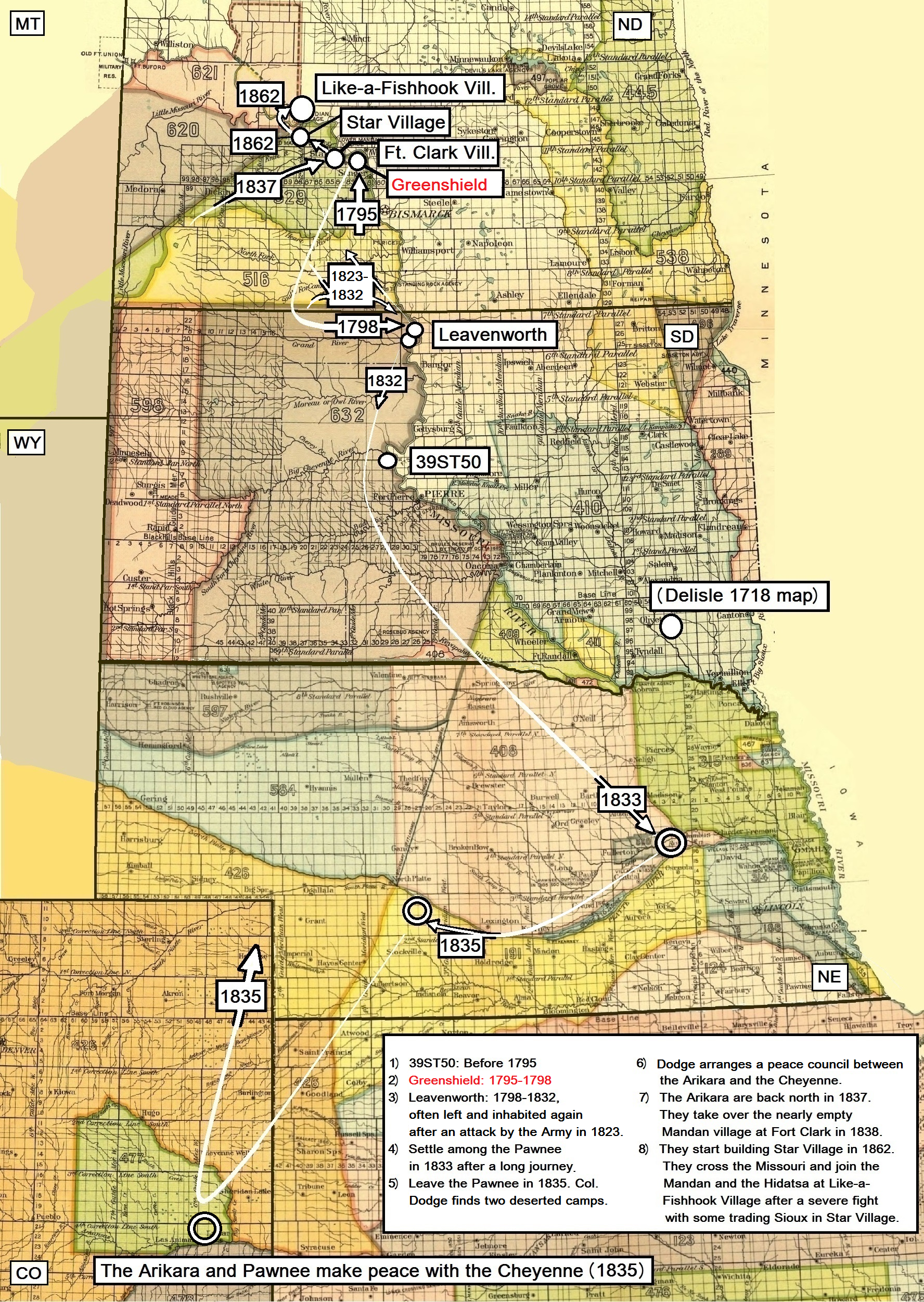 Map adapted to show the major movements (approximately) of the Arikara tribe from 1795 to 1862. Source to archaelogical site 39ST50 and Greenshild.: Johnson, Craig M. (2007): A Chronology of Middle Missouri Plains Village Sites. Smithsonian contributions to Anthropology • number 47. Washington. P. 199 Sources to Delisle 1718 map, Leavenworth Site, the stay in present Nebraska and the peace council with the Cheyenne: Wood, Raymond W.: Historical and Archeological Evidence for Arikara Visits to the Central Plains. Plains Anthropologist. 1955 (July), No. 4, pp. 27-39. Meyer, Roy W. (1977): The Village Indians of the Upper Missouri. Lincoln and London. Pp. 87-89. Source to the Mandan village at Fort Clark, Star Village and Like-a-Fishhook Village: Meyer, Roy W. (1977): The Village Indians of the Upper Missouri. Lincoln and London. Pp. 90 and 108